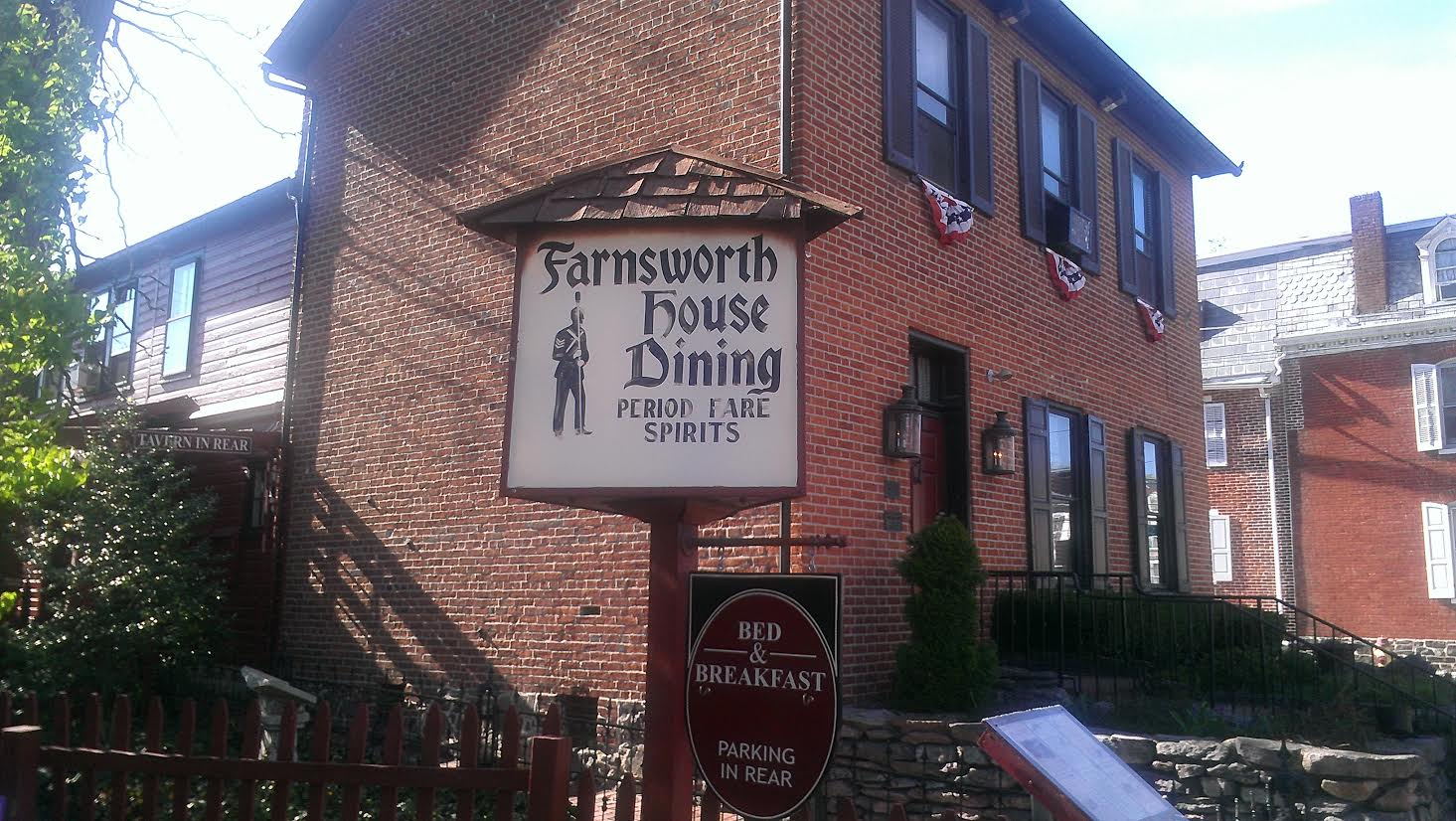 The welcome sign for the farnsworth house inn